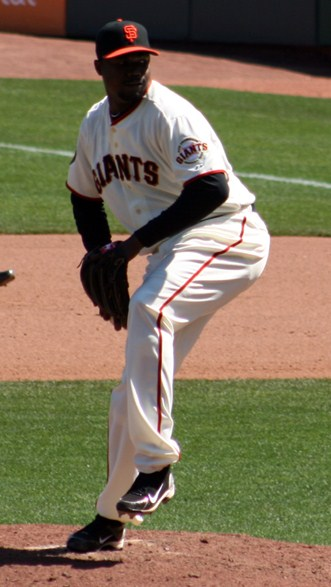 Guillermo Mota pitching for the San Francisco Giants.